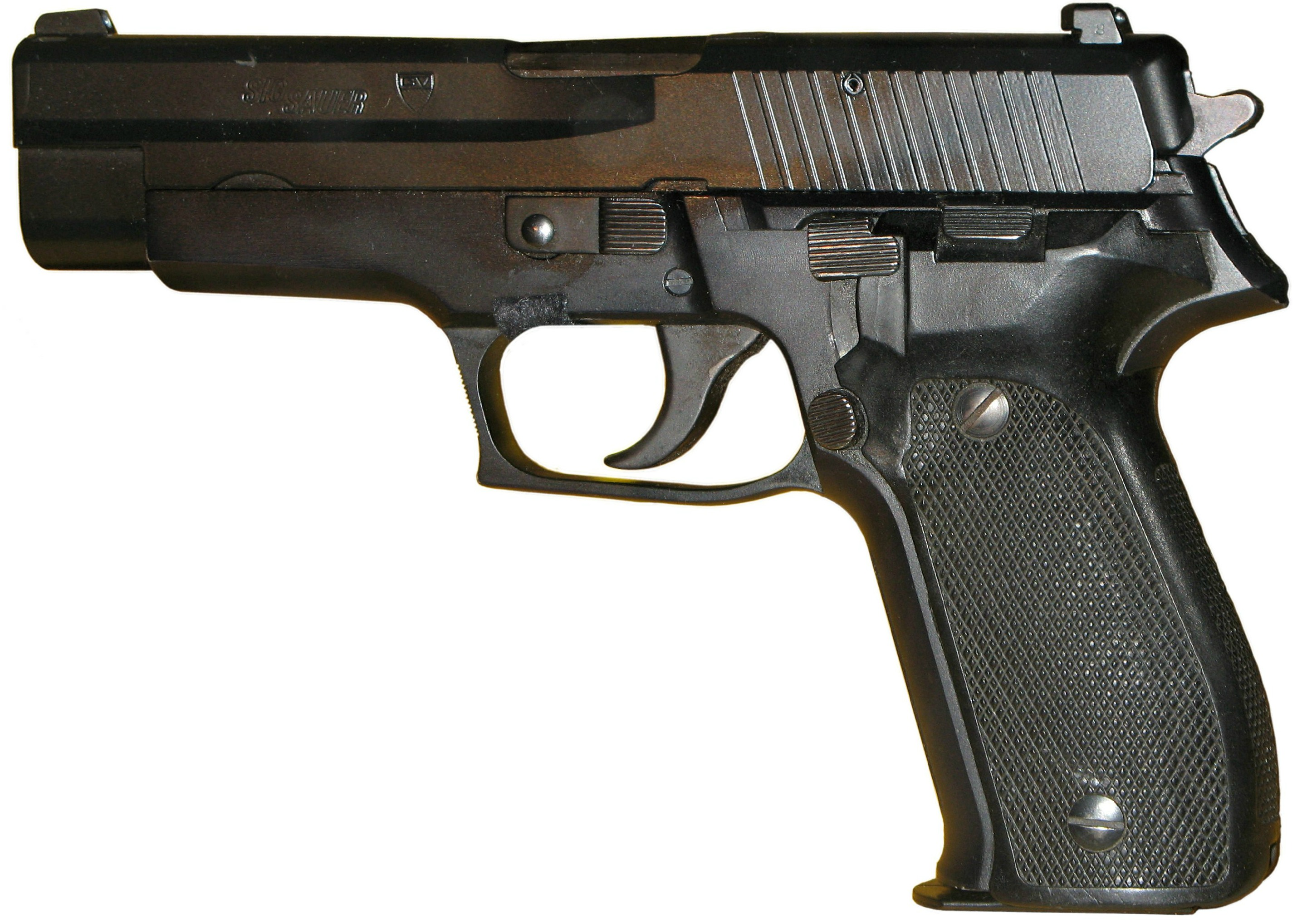 SIG P226